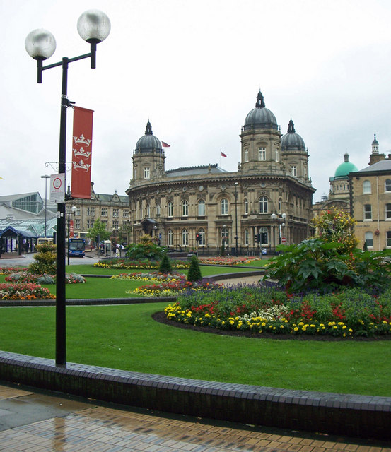 Hull Maritime Museum Photo taken from Queen's Dock Gardens.